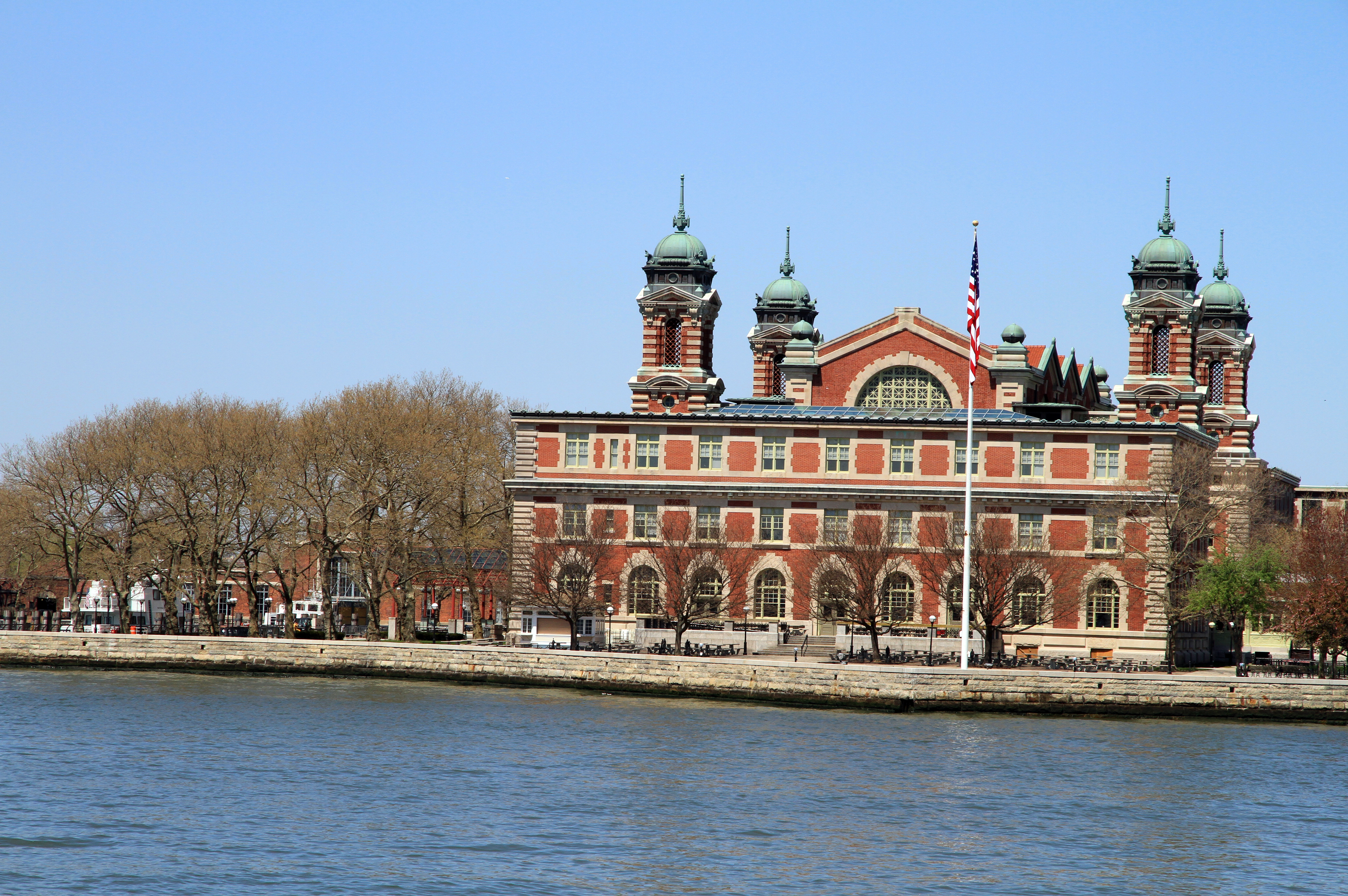 Ellis Island